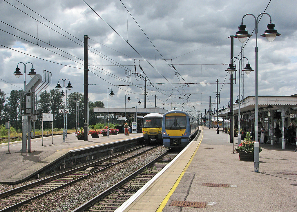 Two trains at Ely railway station. On the left, at Platform 2, is a King's Lynn to Cambridge and King's Cross train. The one on the right was about to leave for Norwich, having left Cambridge at 13.12.